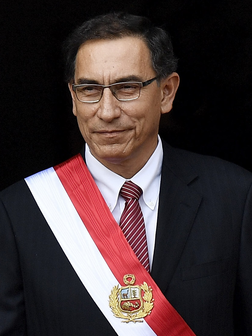 Cropped from a picture of Martín Vizcarra in an official ceremony (2018)